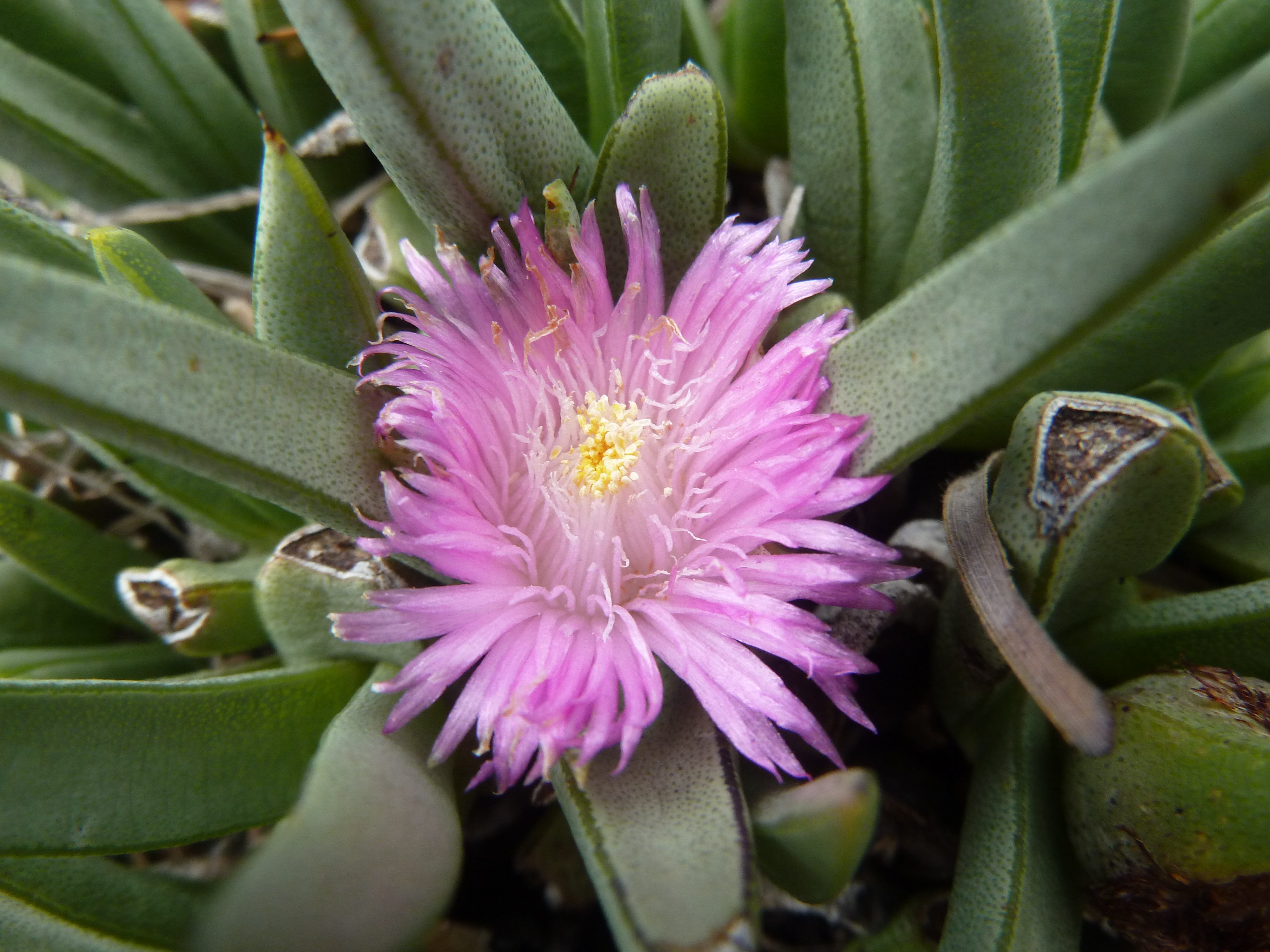 Leaves and flower of Khadia acutipetala on the crest of the Magaliesberg, near Skeerpoort, Gauteng